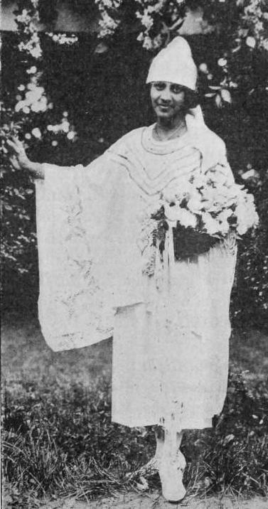 A young, smiling African woman, standing outdoors, wearing a white dress with wide sleeves, a pointed hat low across her brow, and holding a bouquet.